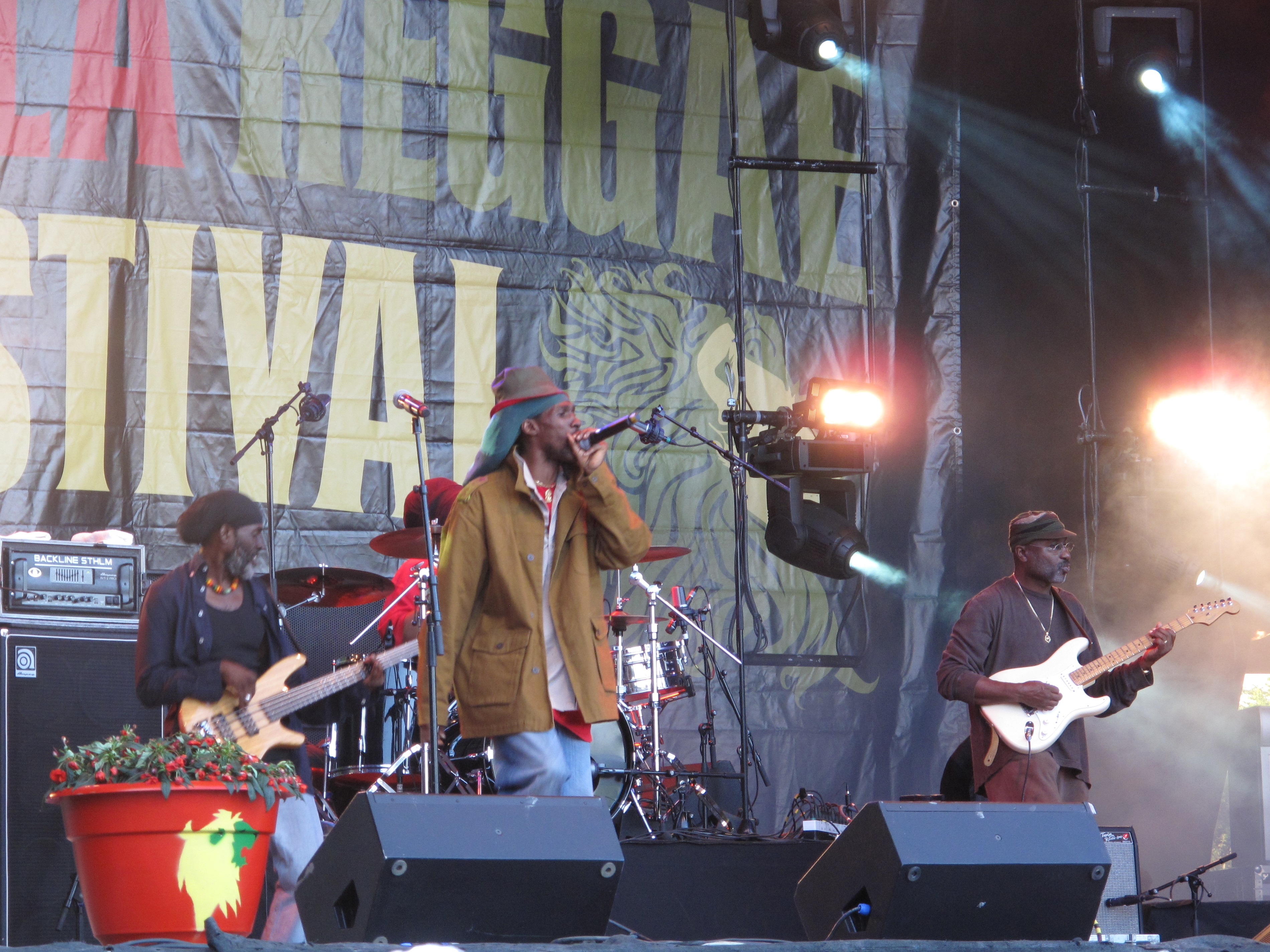 Photo by: Joakim Westerlund / Jessica Olander More photos from Uppsala Reggae Festival 2010